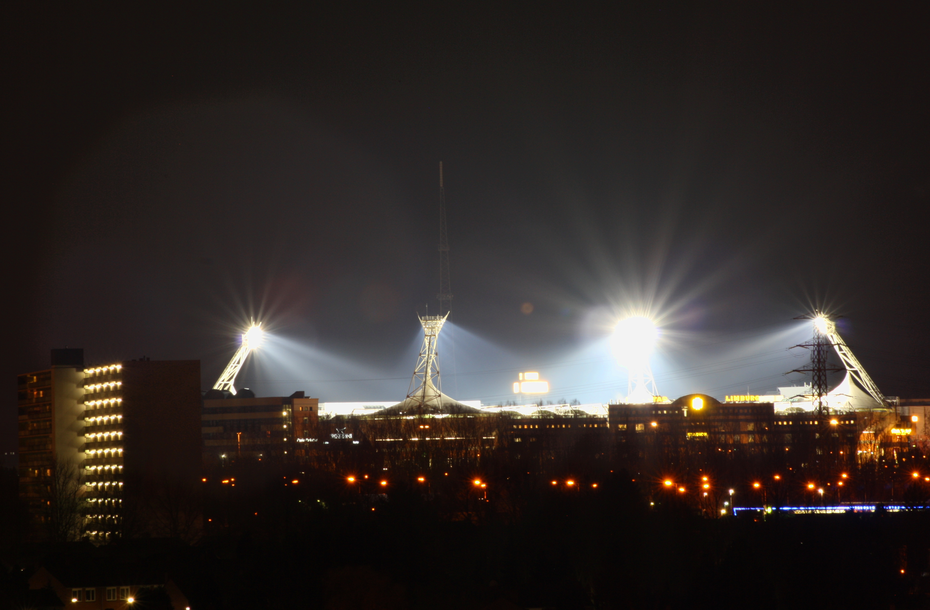 Parkstad Limburg Stadion by night (football game on saturday evening march 27, 2010)